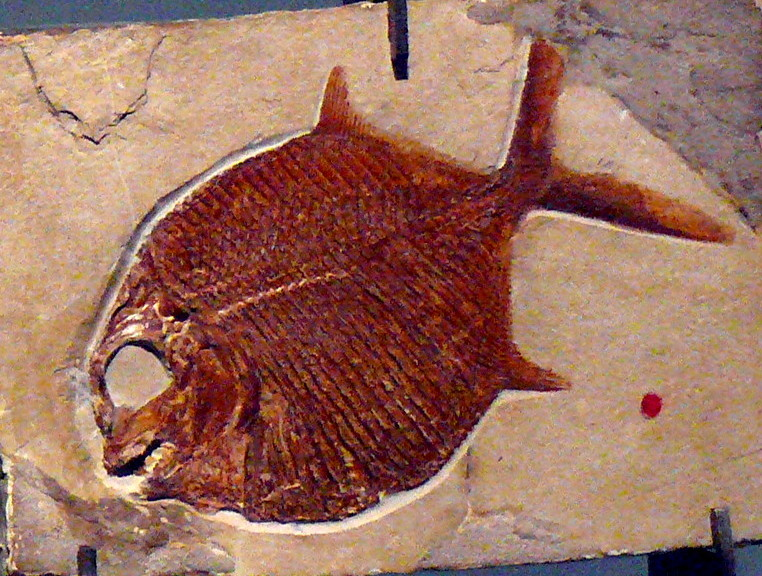 Gyrodus hexagonus from Kelheim, Germany